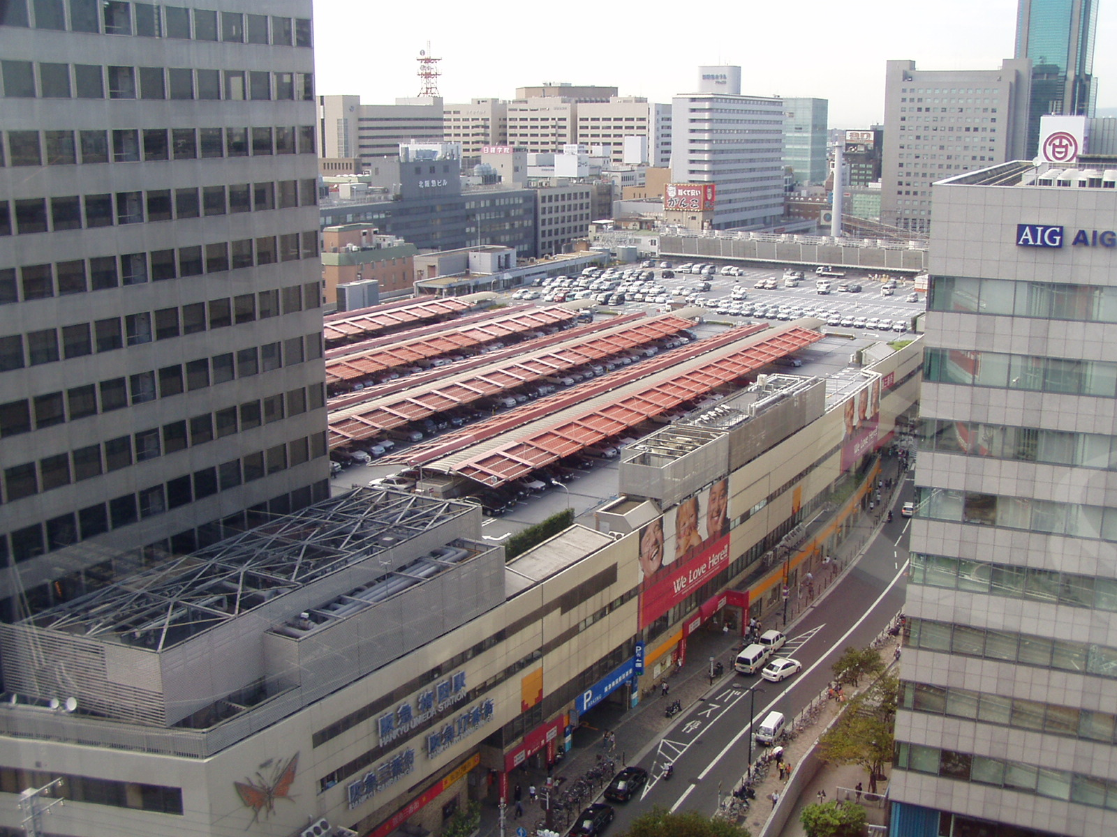 Osaka. Hankyu Umeda Station platform overbuilding seen from HEP ferris-wheel.